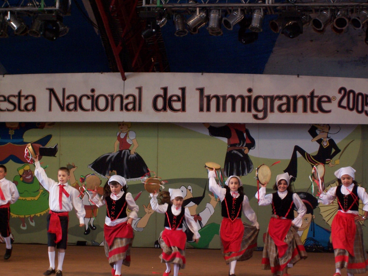 The Italian ballet, in the greater scene of XXVI Immigrant's National Festival, in Oberá, Misiones, Argentina.